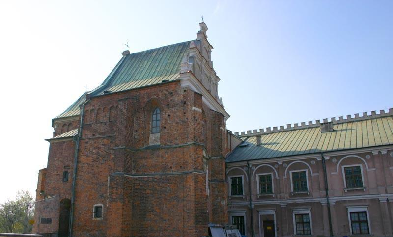 Lublin Castle - The Holy Trinity Chapel